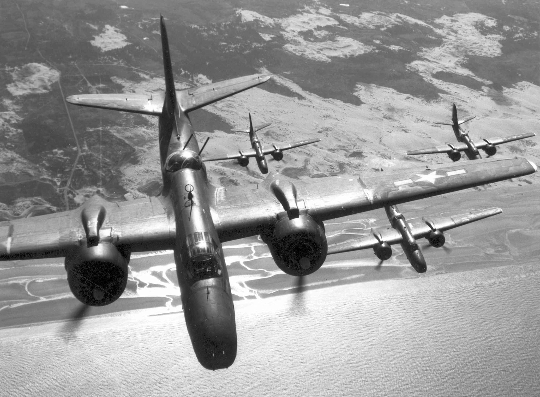 9th Air Force Douglas A-20G or A-20H over France.